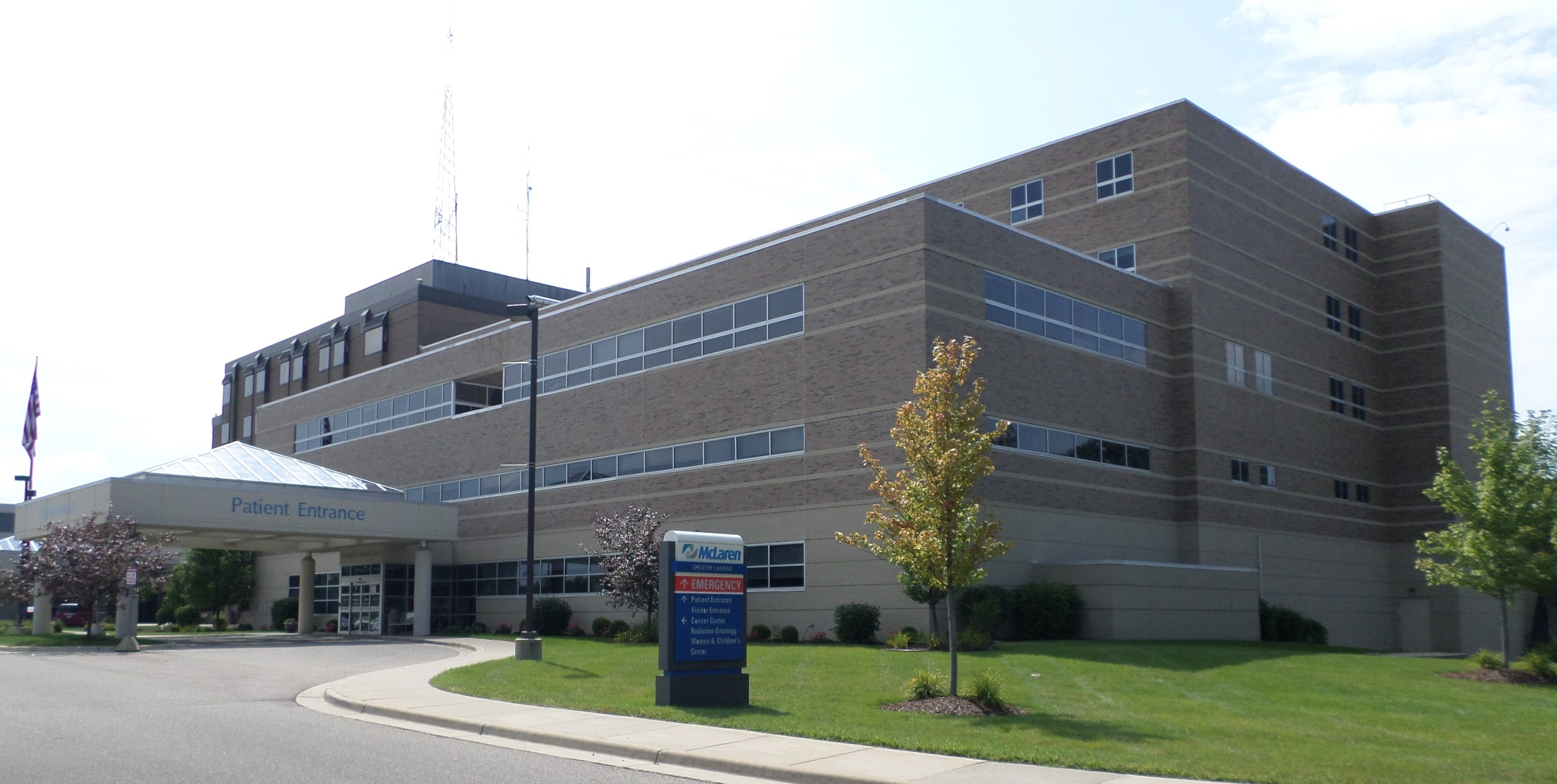 The McLaren Greater Lansing hospital, located at 401 W Greenlawn Ave, Lansing, MI